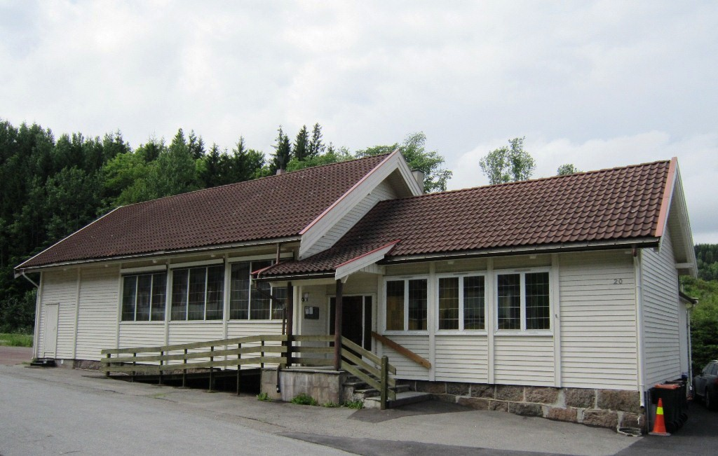 Melsomvik church, Stokke municipality, Norway